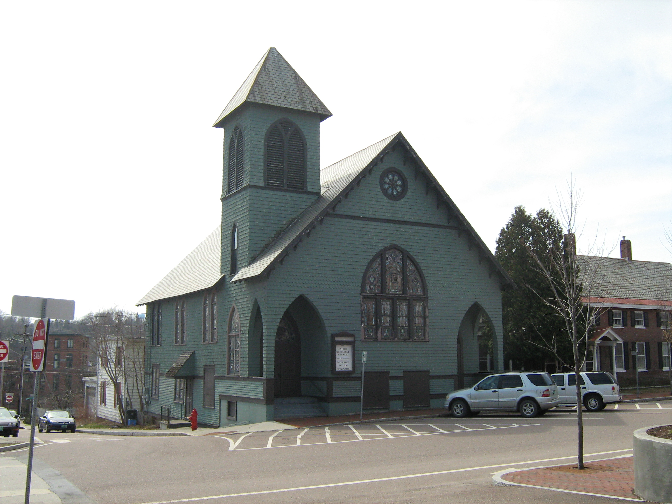 Methodist Episcopal Church of Winooski (a/k/a Winooski United Methodist Church)